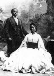 A portrait of James Pinson Labulo Davies and Sarah Forbes Bonetta photographed in London in 1862 by Camille Silvy.